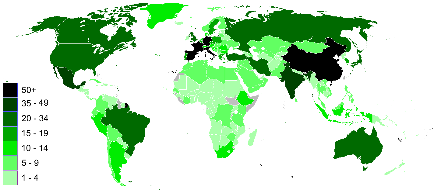 Number of UNESCO World Heritage Sites by country (as of 2018)